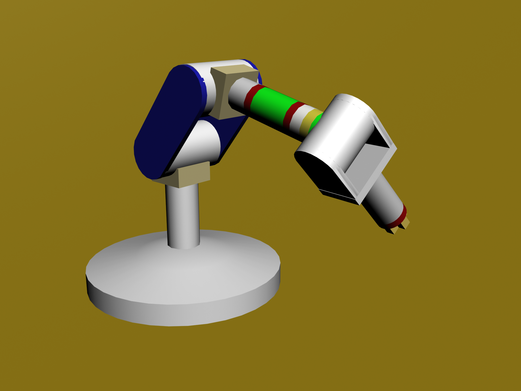 3D model of robotic arm